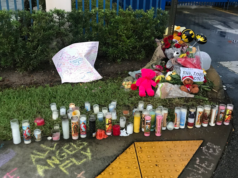 Image from the XXXTentaction's memorial.